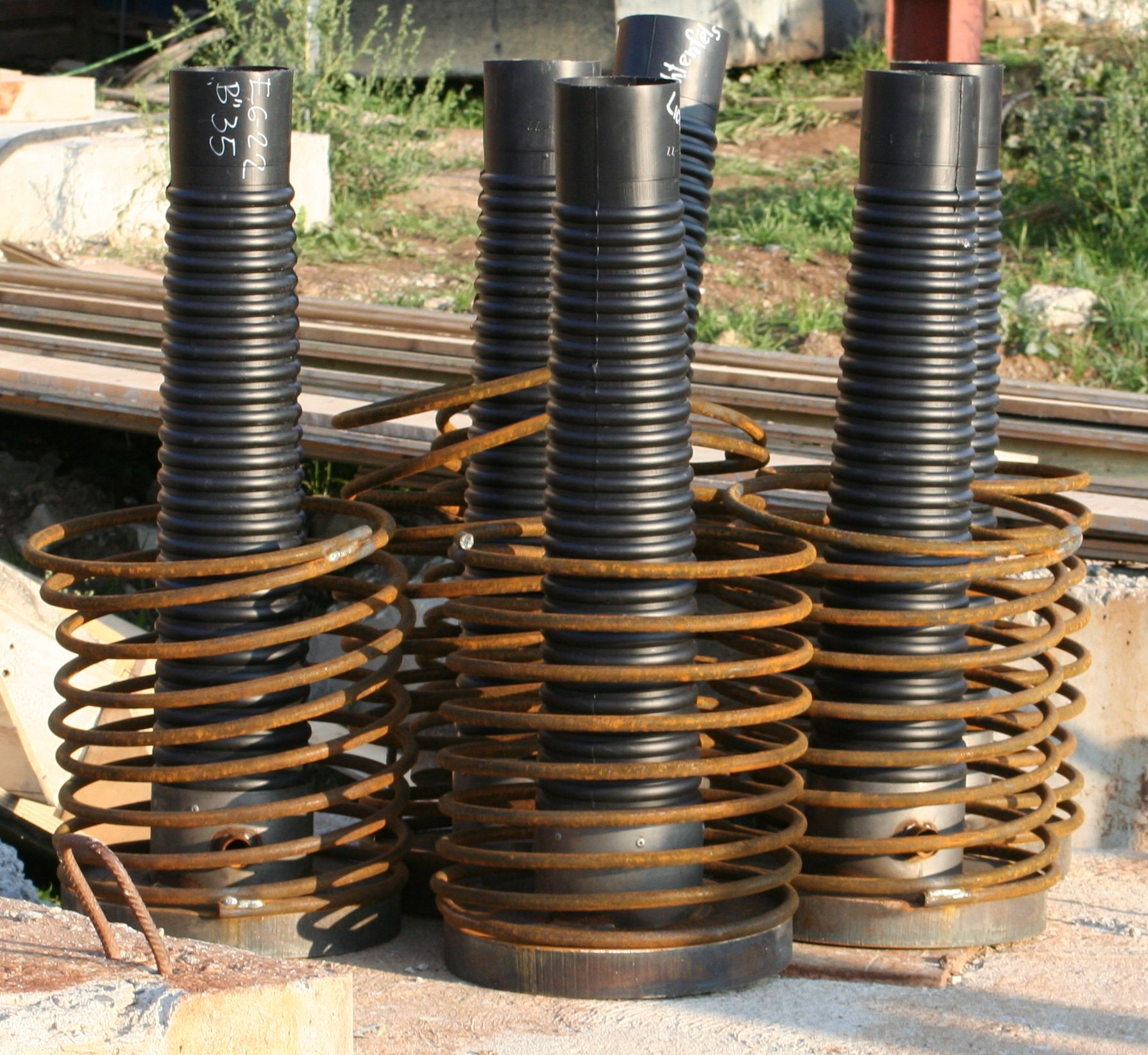 Anchor head: steel bearing plate with trumpet and spiral reinforcement